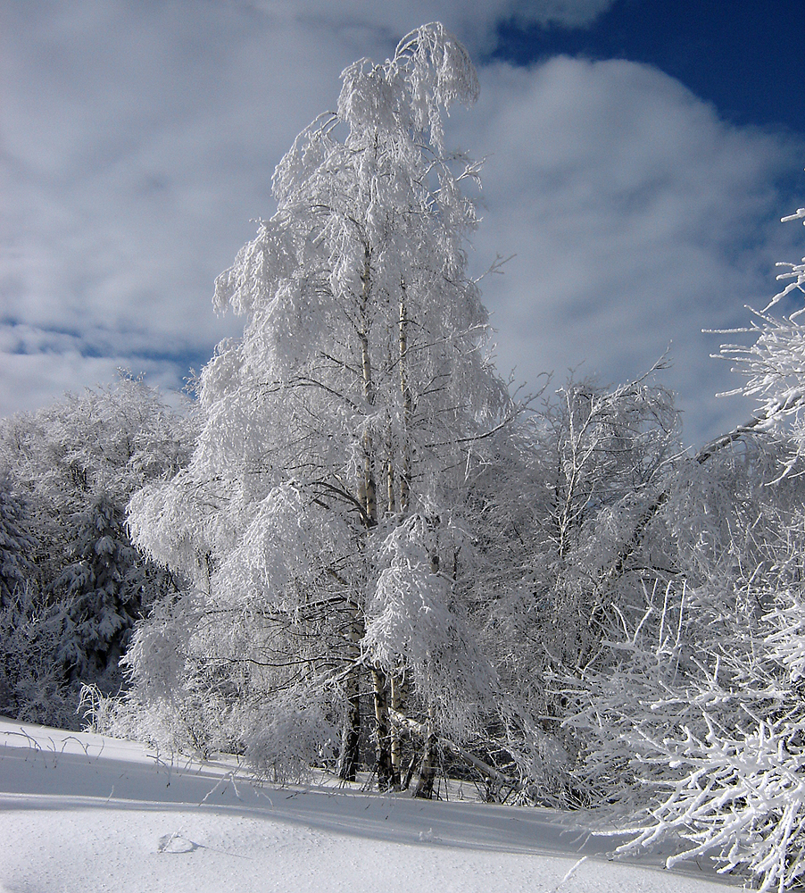 Maiden snow on Vitosha Mountain, Sofia, Bulgaria